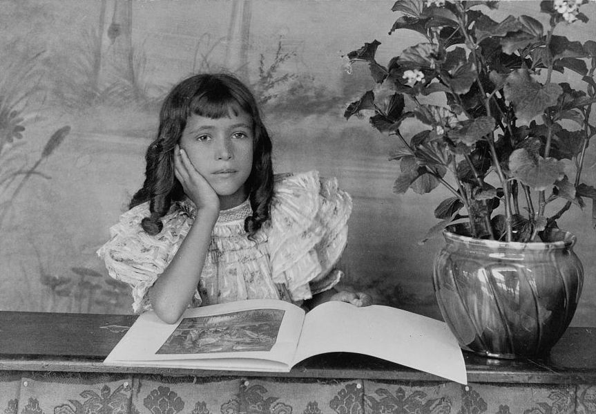 Daughter of Thomas E. Askew, head-and-shoulders portrait, seated, right hand on cheek, with open book